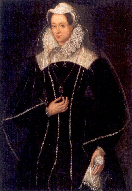 Mary Queen of Scots' portrait in captvity